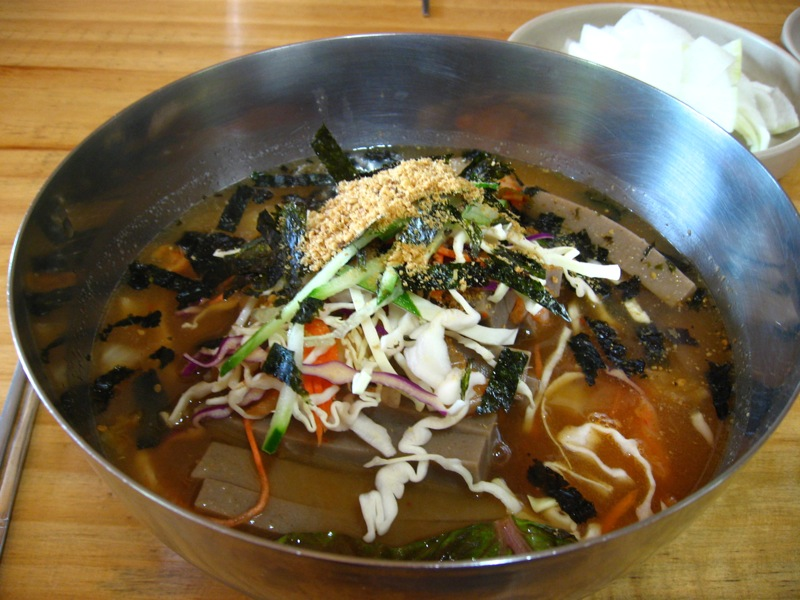 Korean buckwheat jelly-Memil muksabal